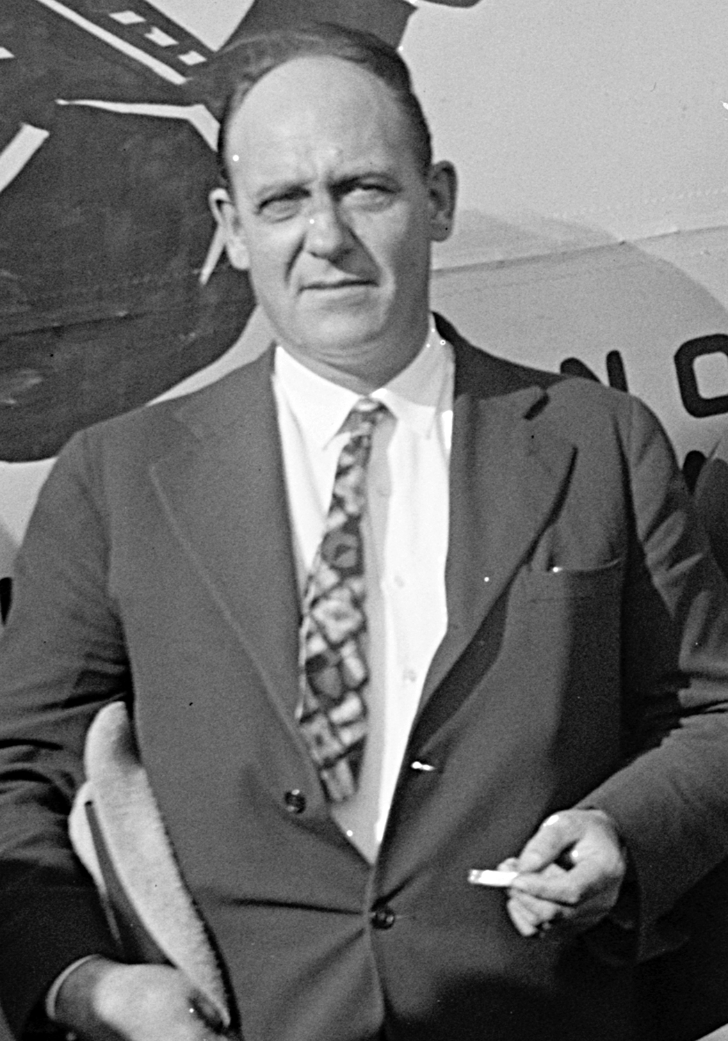 Edmund F. Cooke, US Representative from New York